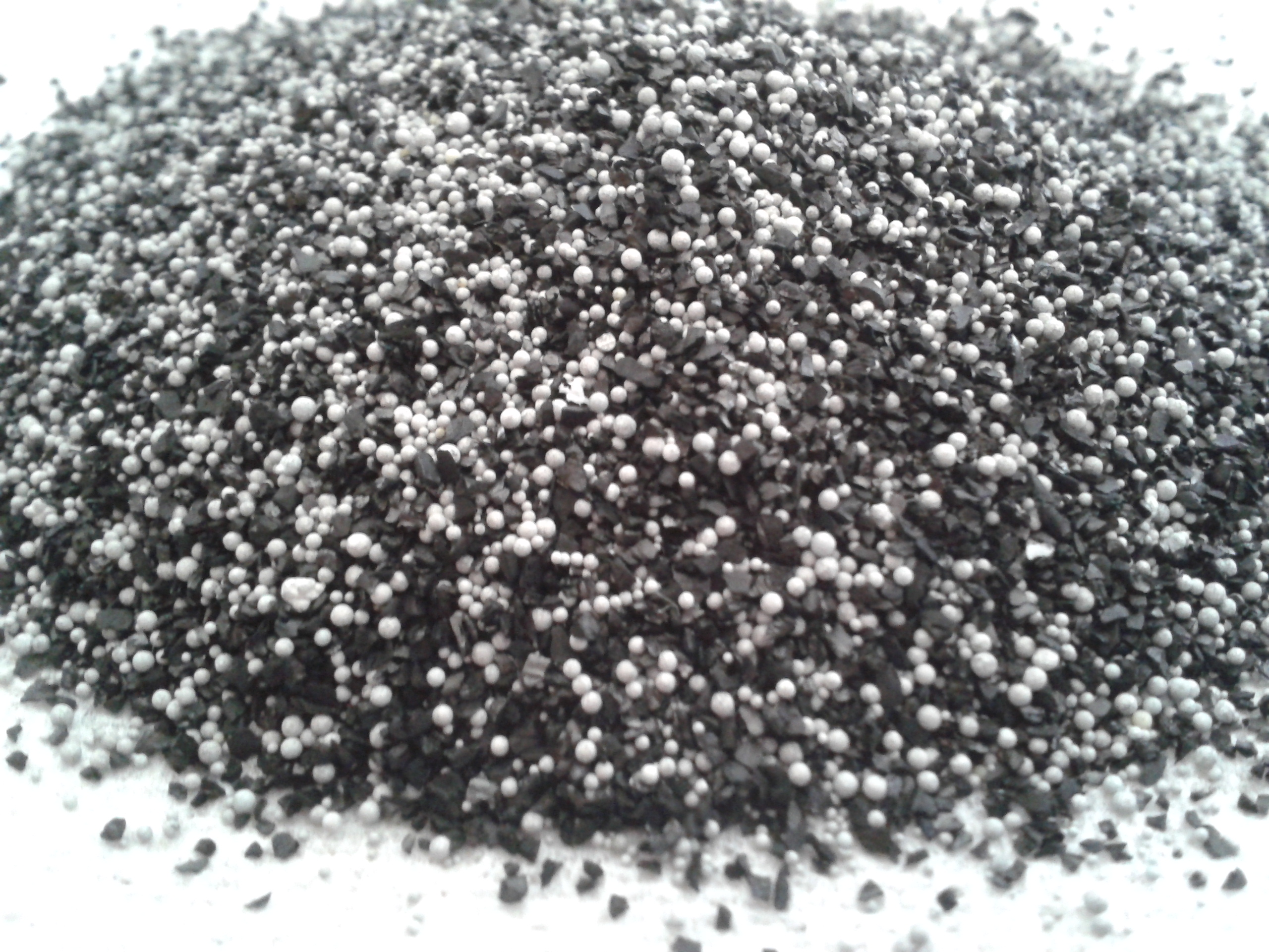 Contents of a domestic water filter